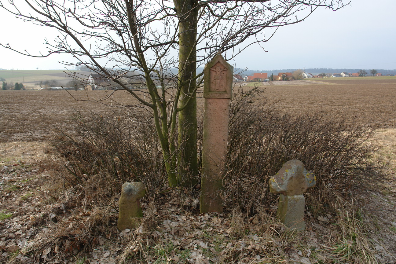 Two (Irish/Gaelic) Stone Crosses and a wayside shrine between Hofstädten and Omersbach near Geiselbach, Germany.